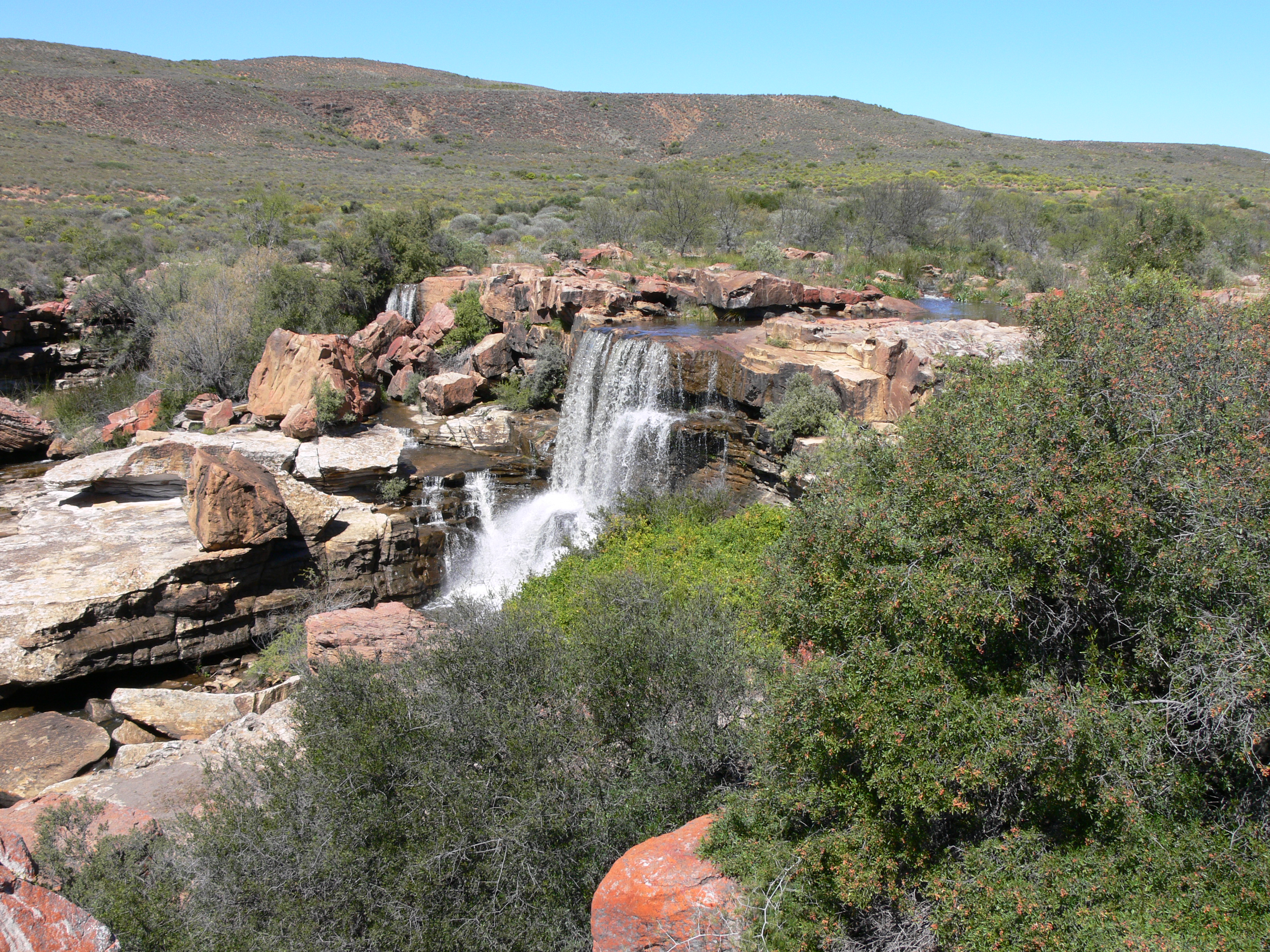 Doorn River Waterfall, a few miles north of Nieuwoudtville on the road to Loeriesfontein, Northern Cape, Soutafrica